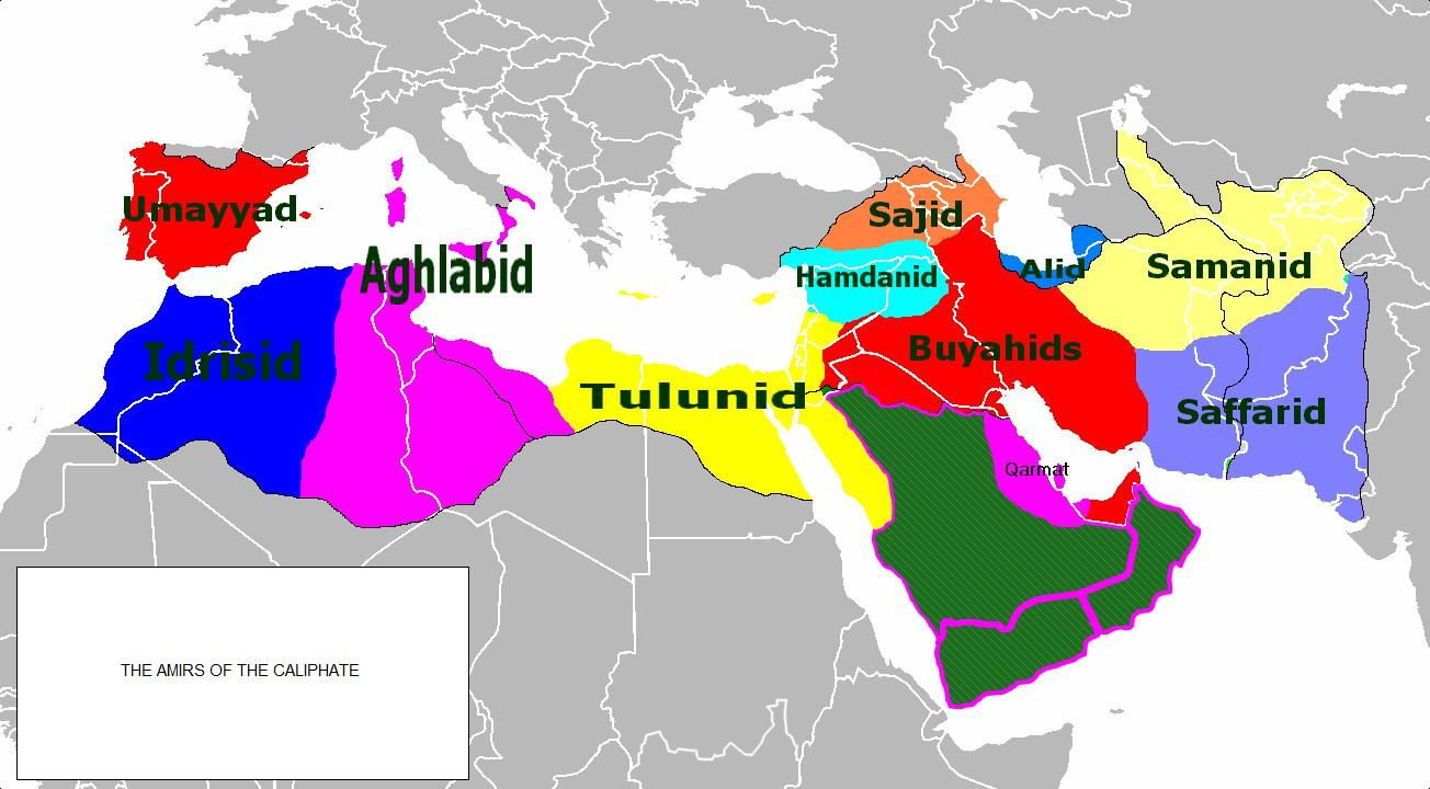 Isochronic map of Caliphate fragmentation